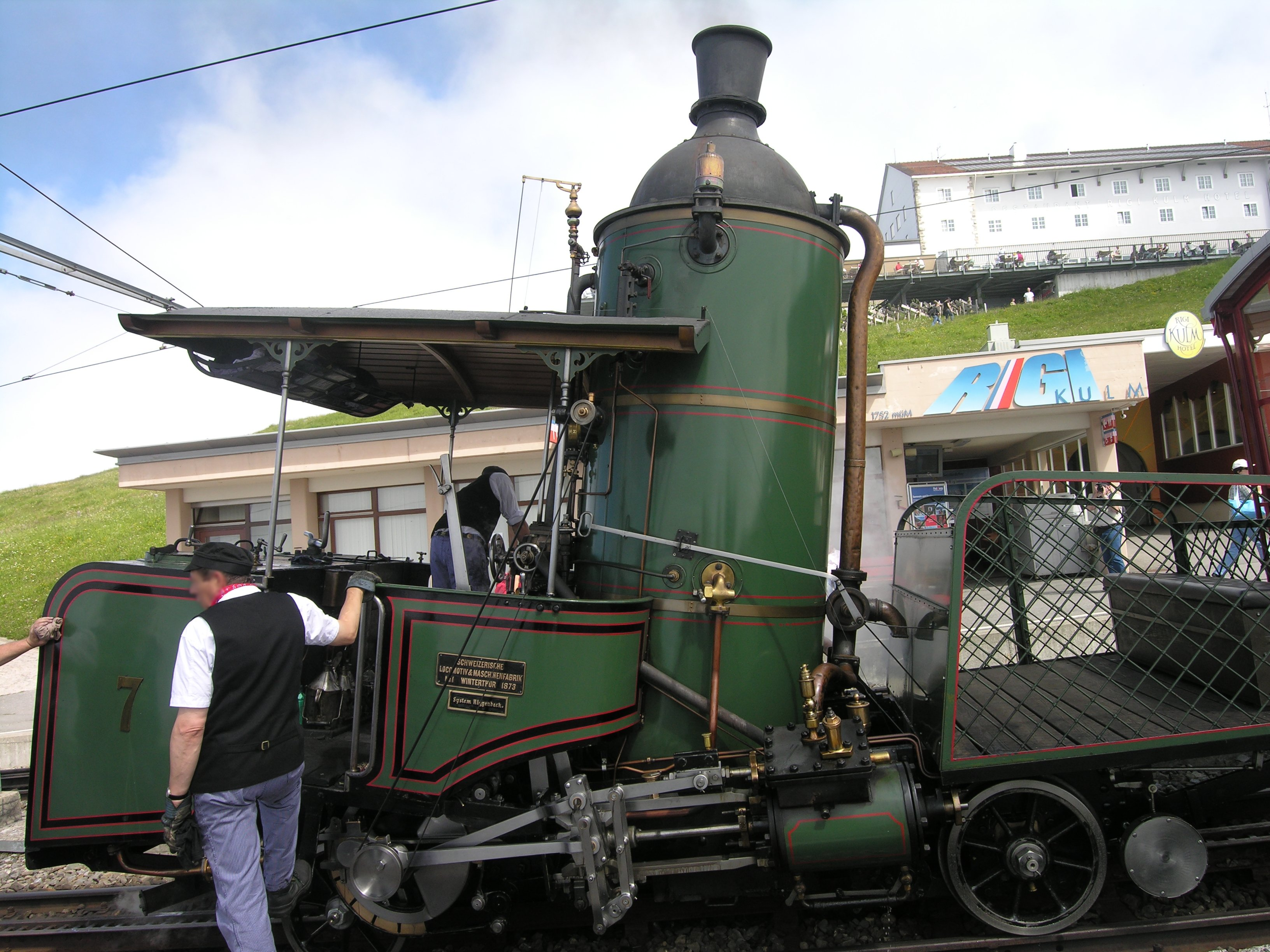 Vintage ride on Rigi Culm, using locomotive built in 1873 with vertical boiler.